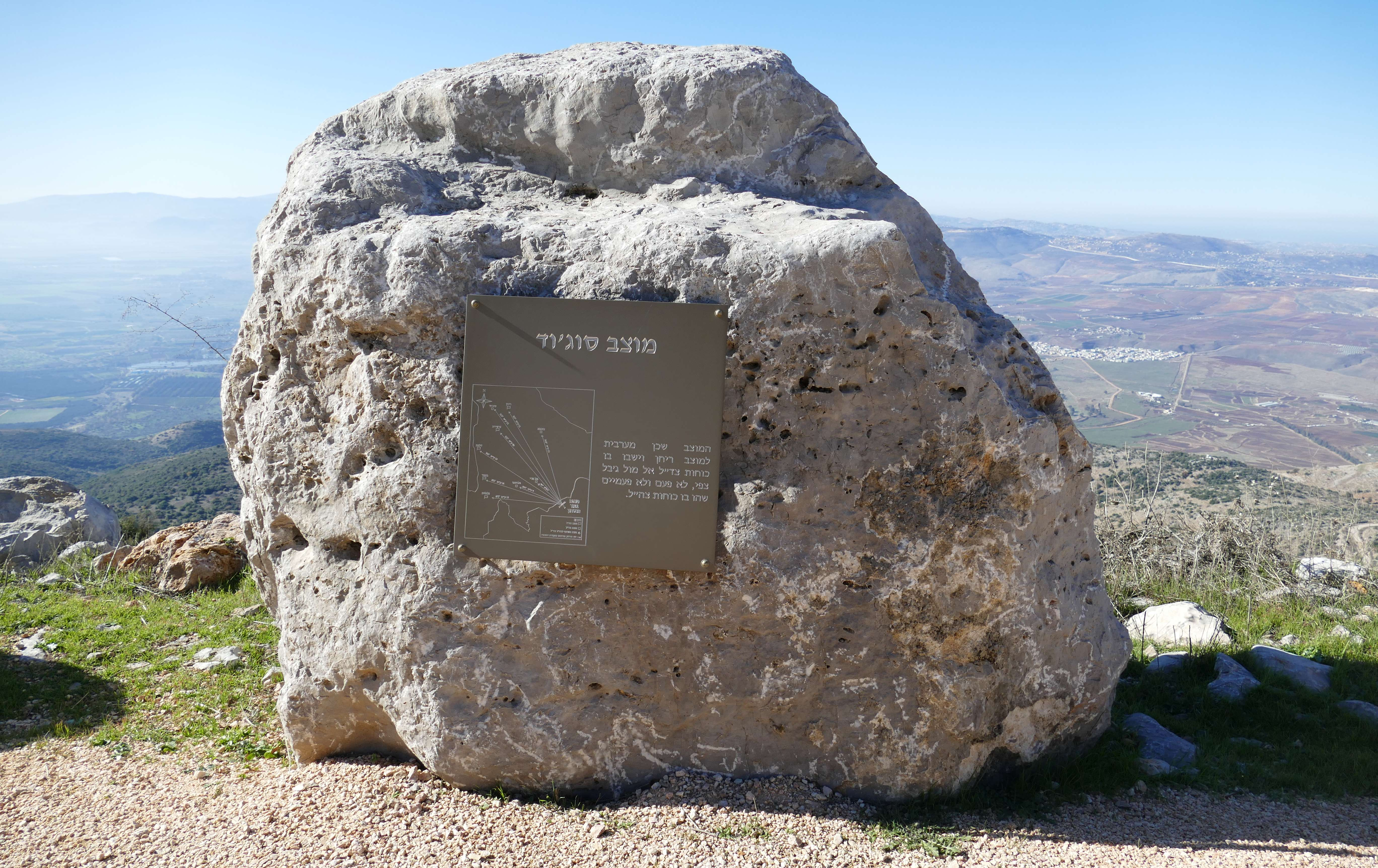 Security Zone Lookout, Mount Dov, Israel.